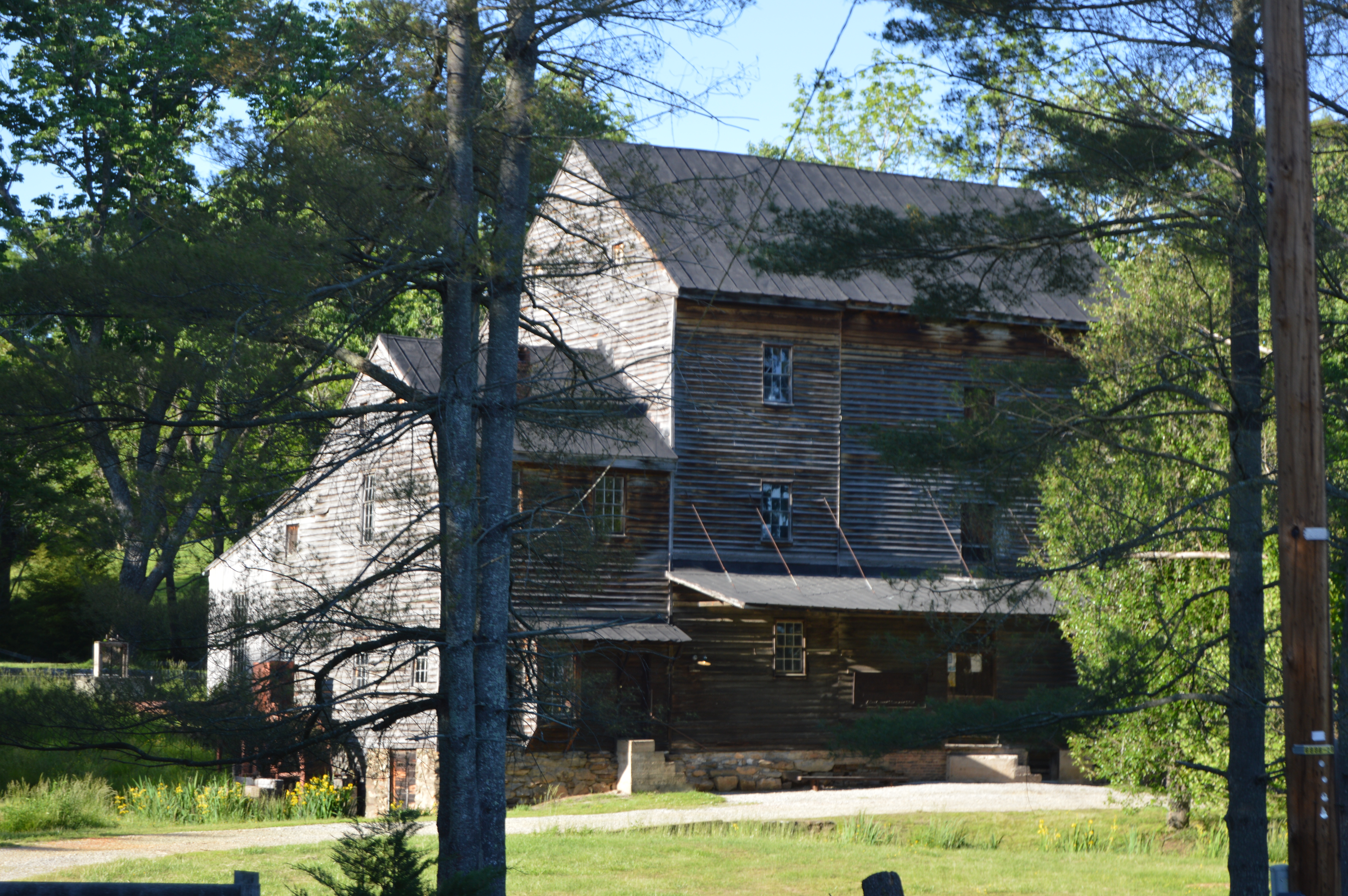 Front and western side of Woodson's Mill, located on Lowesville Road at Lowesville in Nelson County, Virginia, United States. Built in 1845, it is listed on the National Register of Historic Places.